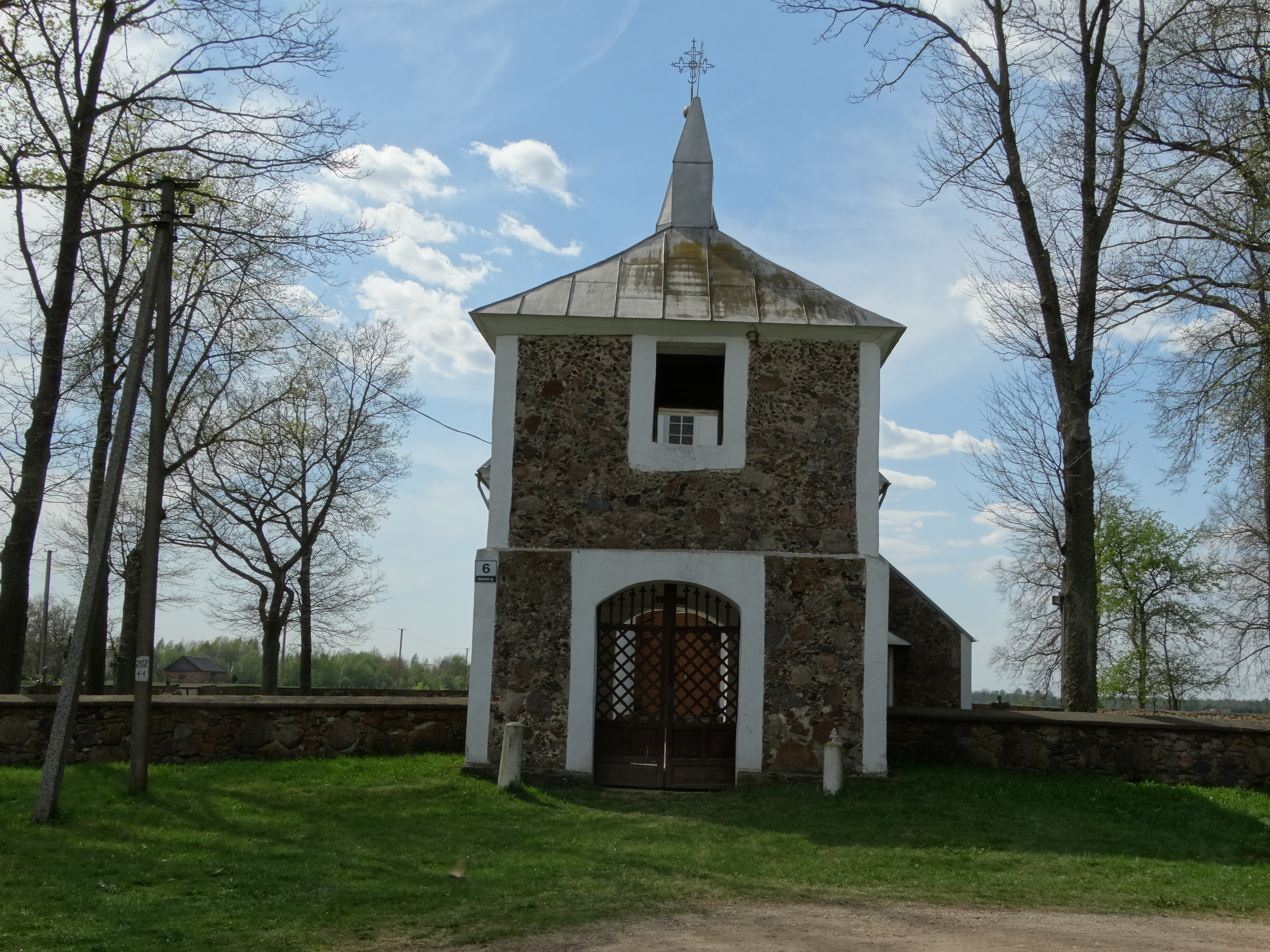 Dapšioniai Church, bell tower, Radviliškis District, Lithuania